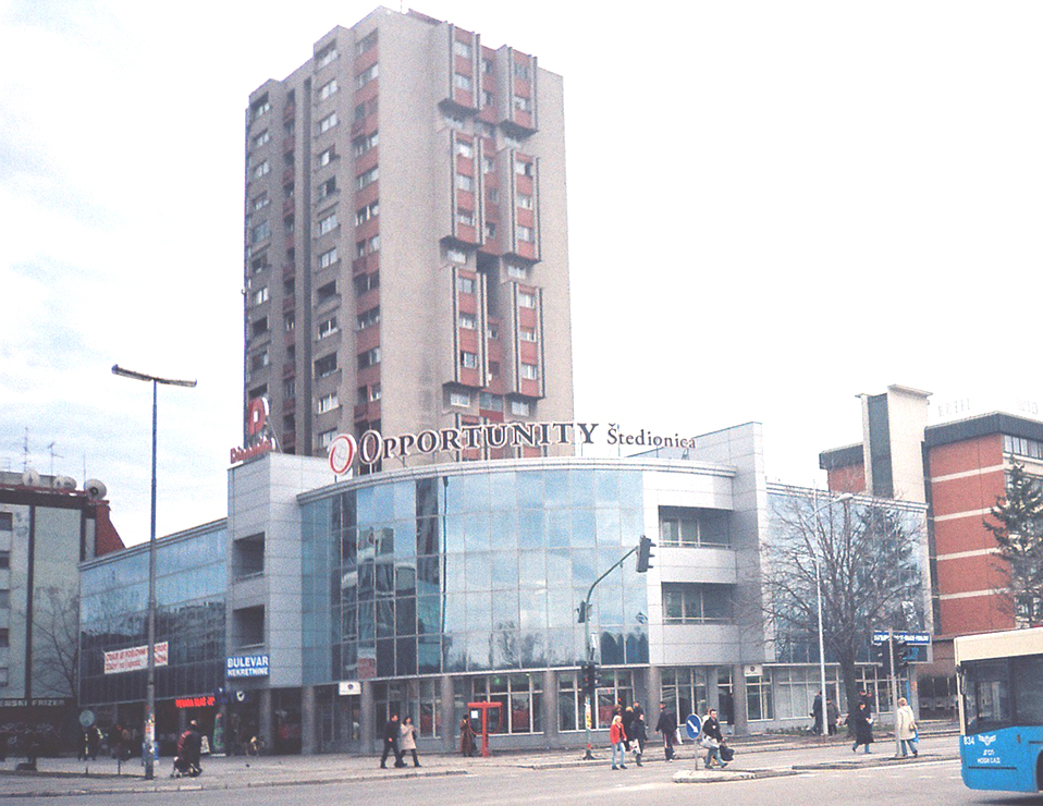 Image of Banatić neighborhood in Novi Sad (self made)